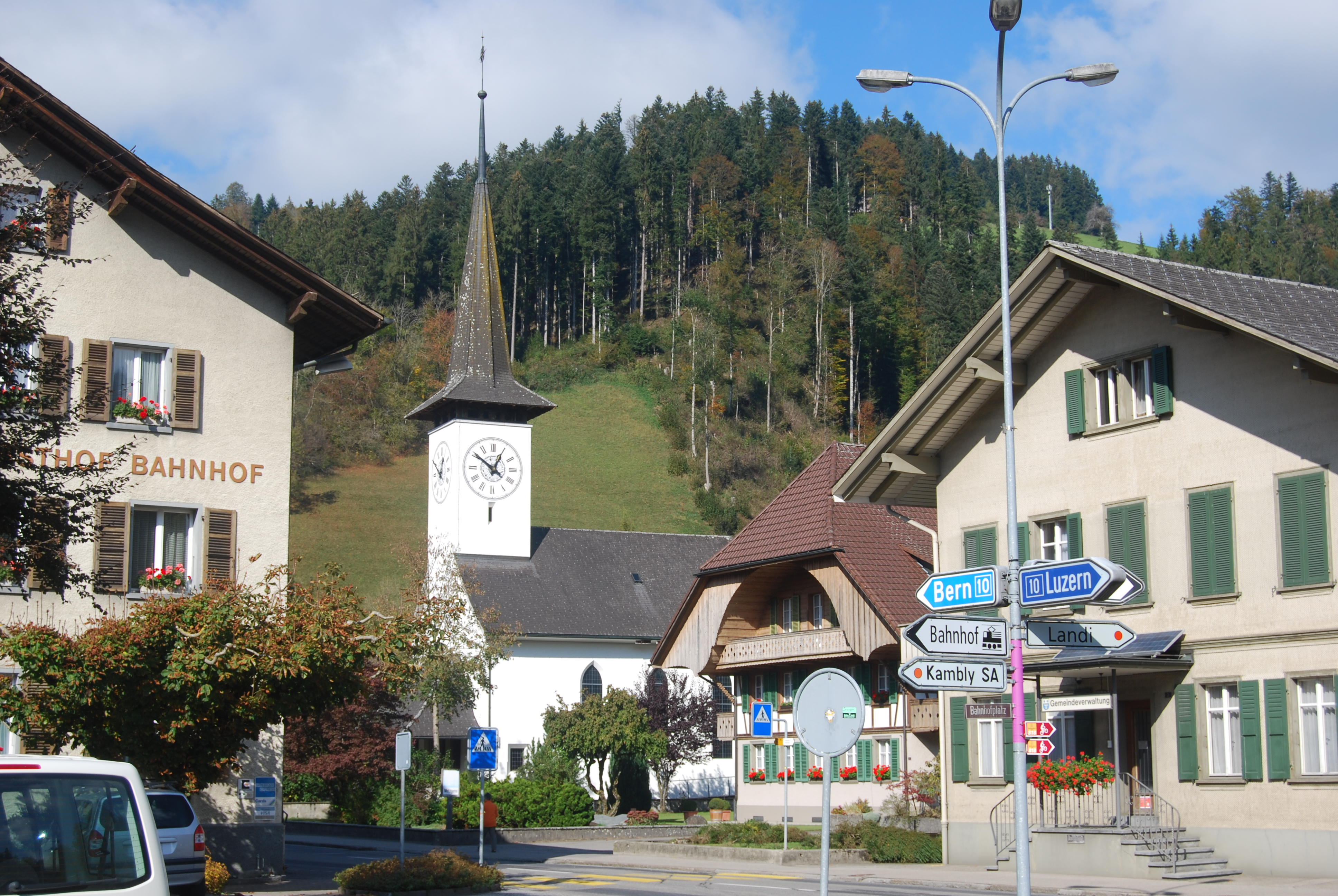 Church of Trubschachen, canton of Bern, SwitzerlandEsperanto: Preĝejo de Trubschachen, Kantono Berno, Svislando